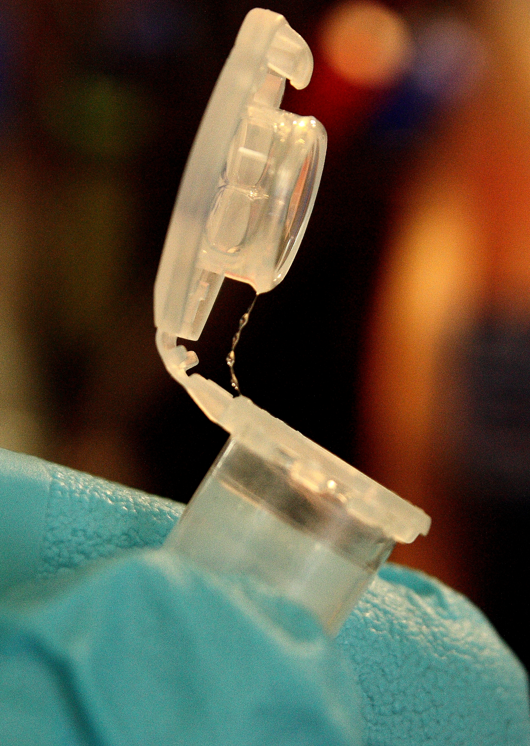 DNA thread on microtube. After alkaline lysis bacterial DNA forms visible thread which can be seen because of DNA-bound proteins and liquid.